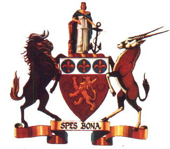 Coat of Arms of the Cape Province, based on the coat of arms of British Cape Colony.